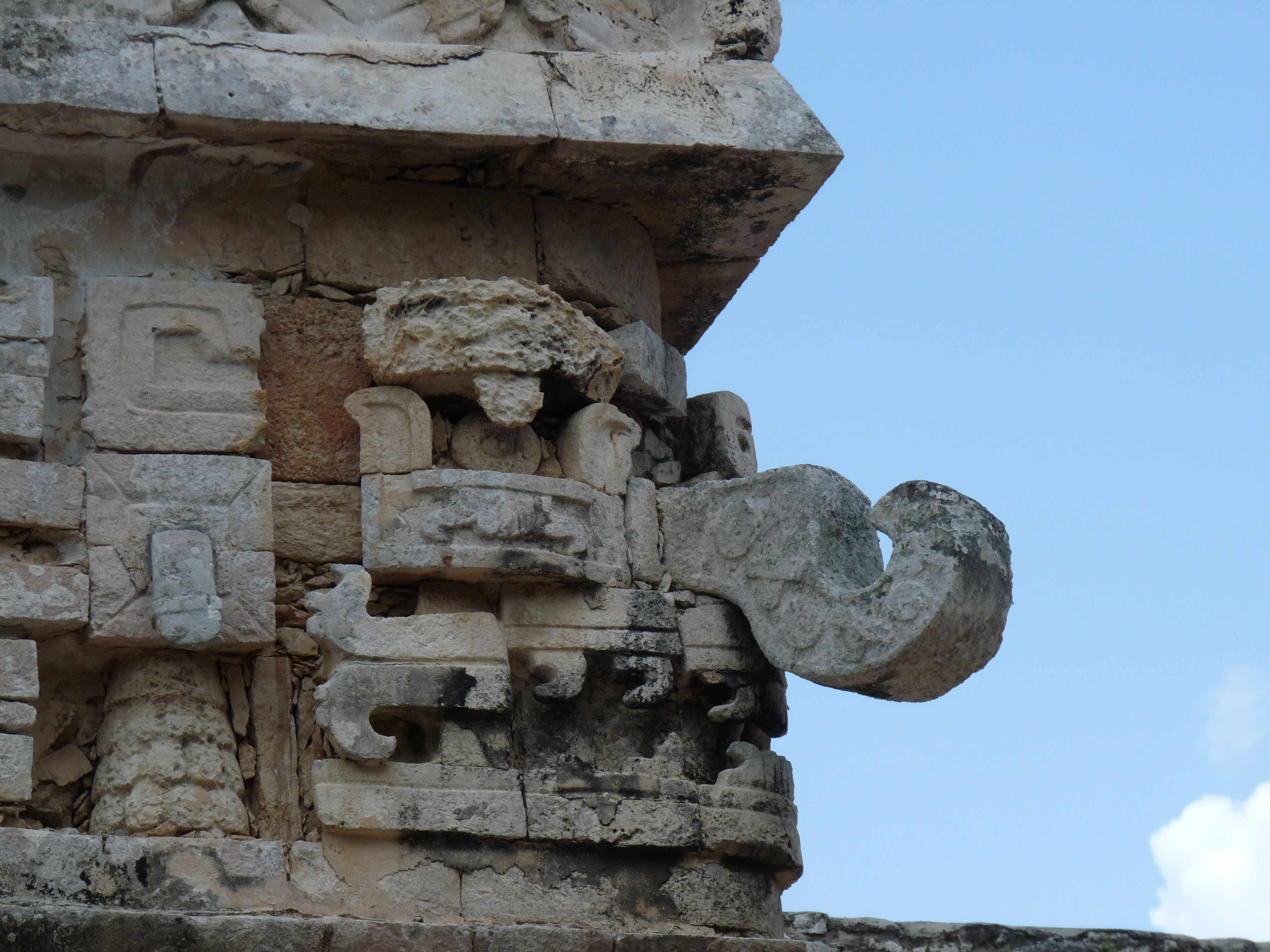 Chac face on the front of the monument called "La Iglesia" (Chichén Itzá).